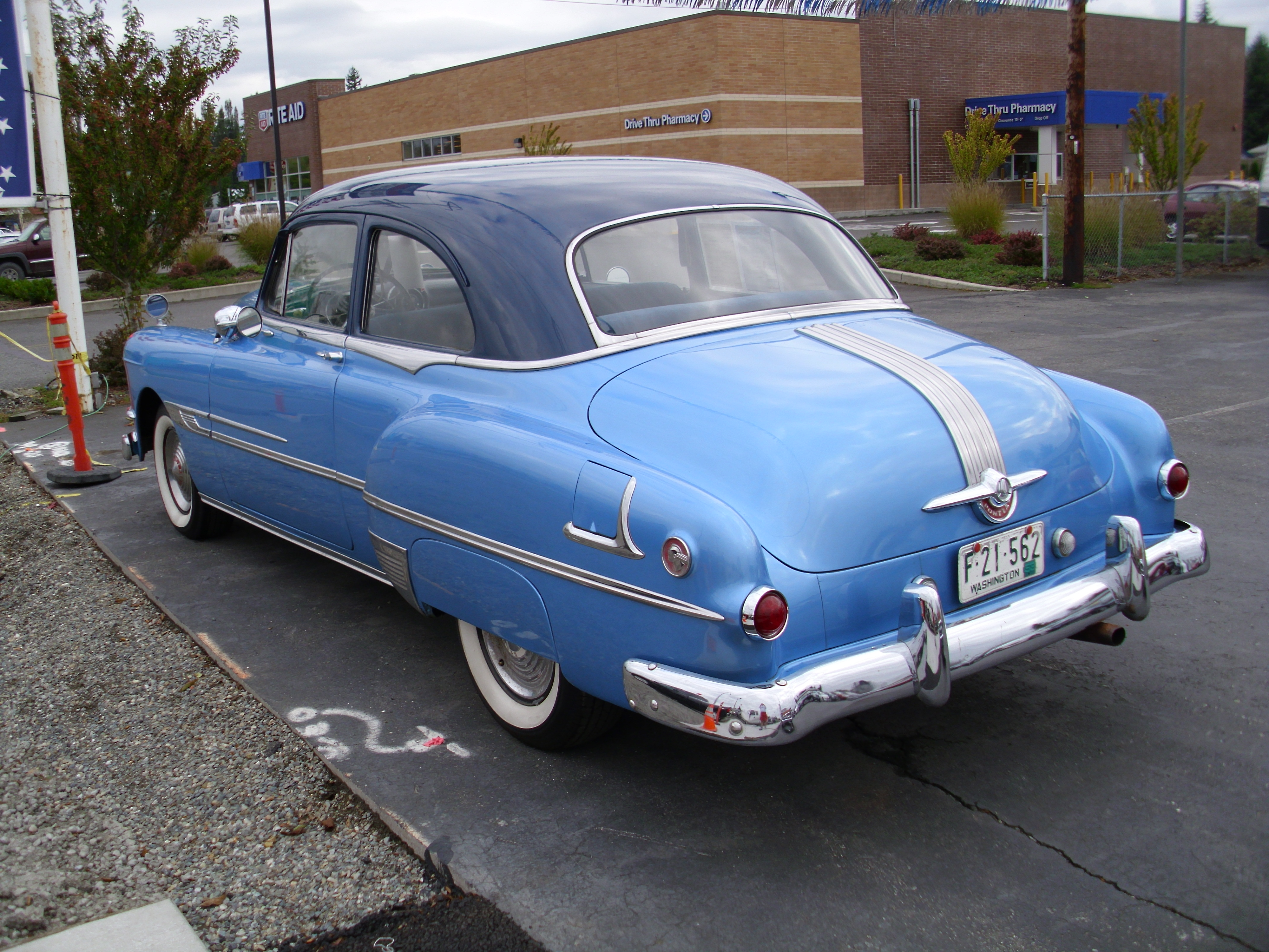 1952 Pontiac Chieftain 2-door sedan on a used car lot, asking $13,995. Nice looking car. I wonder if what is under the hood is original?